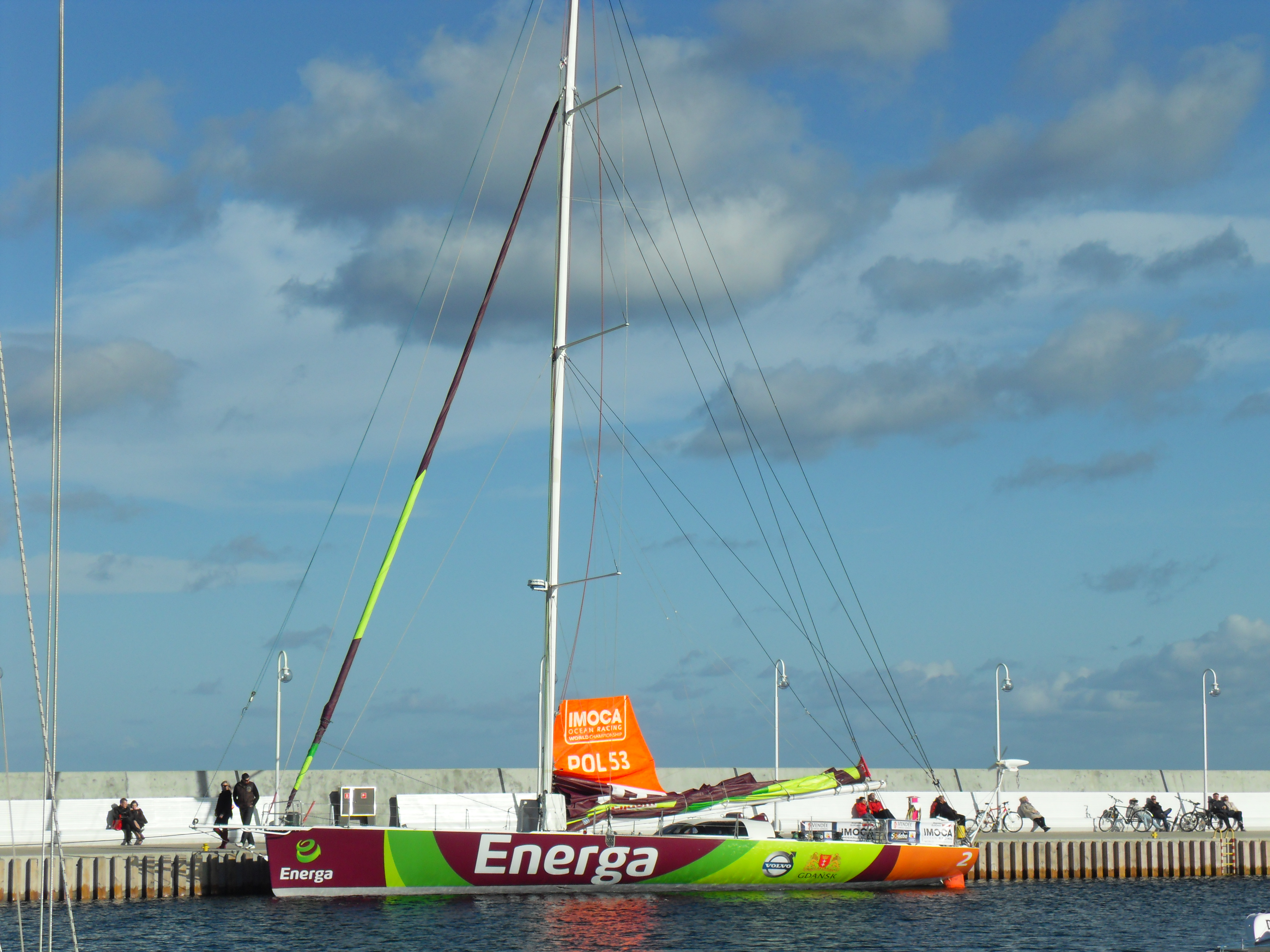 Zbigniew Gutkowski's (Poland) vessel 2 days before The Vendée Globe (a round-the-world single-handed yacht race) 2012.